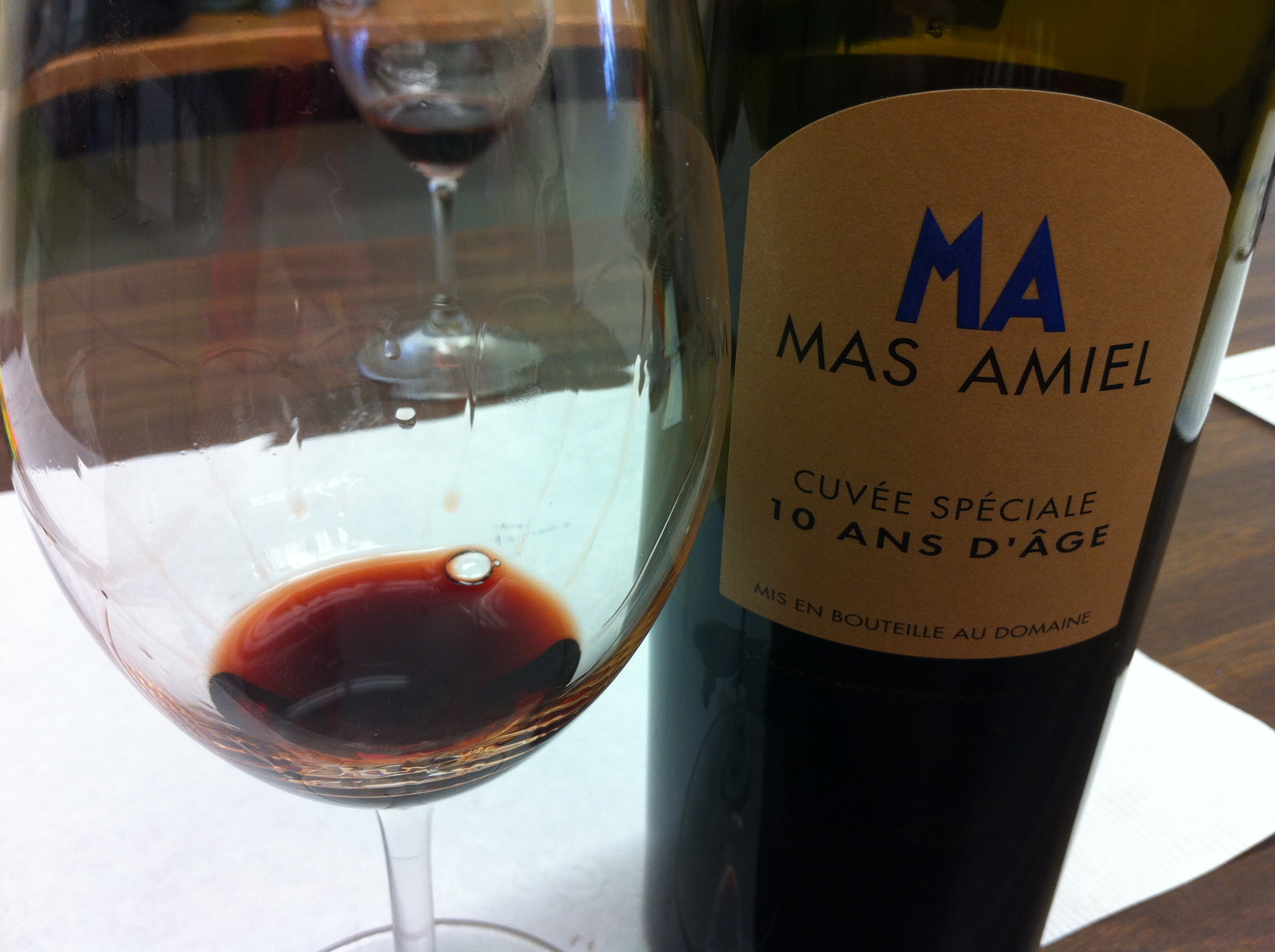 French dessert style wine from the Maury AOC of the Roussillon made predominantly from Grenache in the Vin doux natural style of adding fortified spirits to halt fermentation